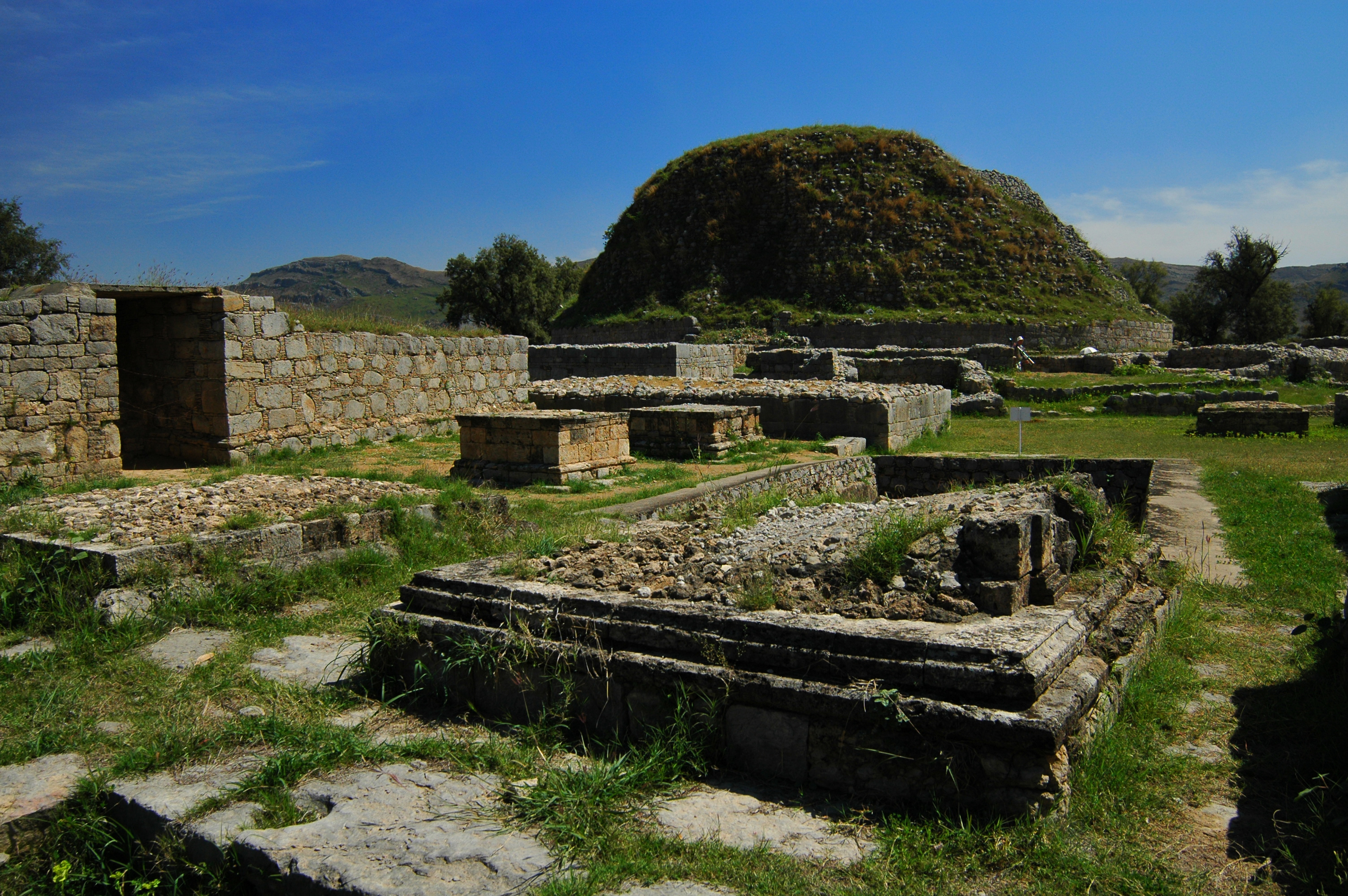 Dharmarajika stupa and monastery This is a photo of a monument in Pakistan identified as the PB-127